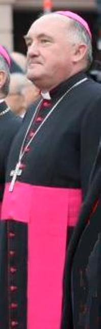 Archbishops Kazimierz Nycz